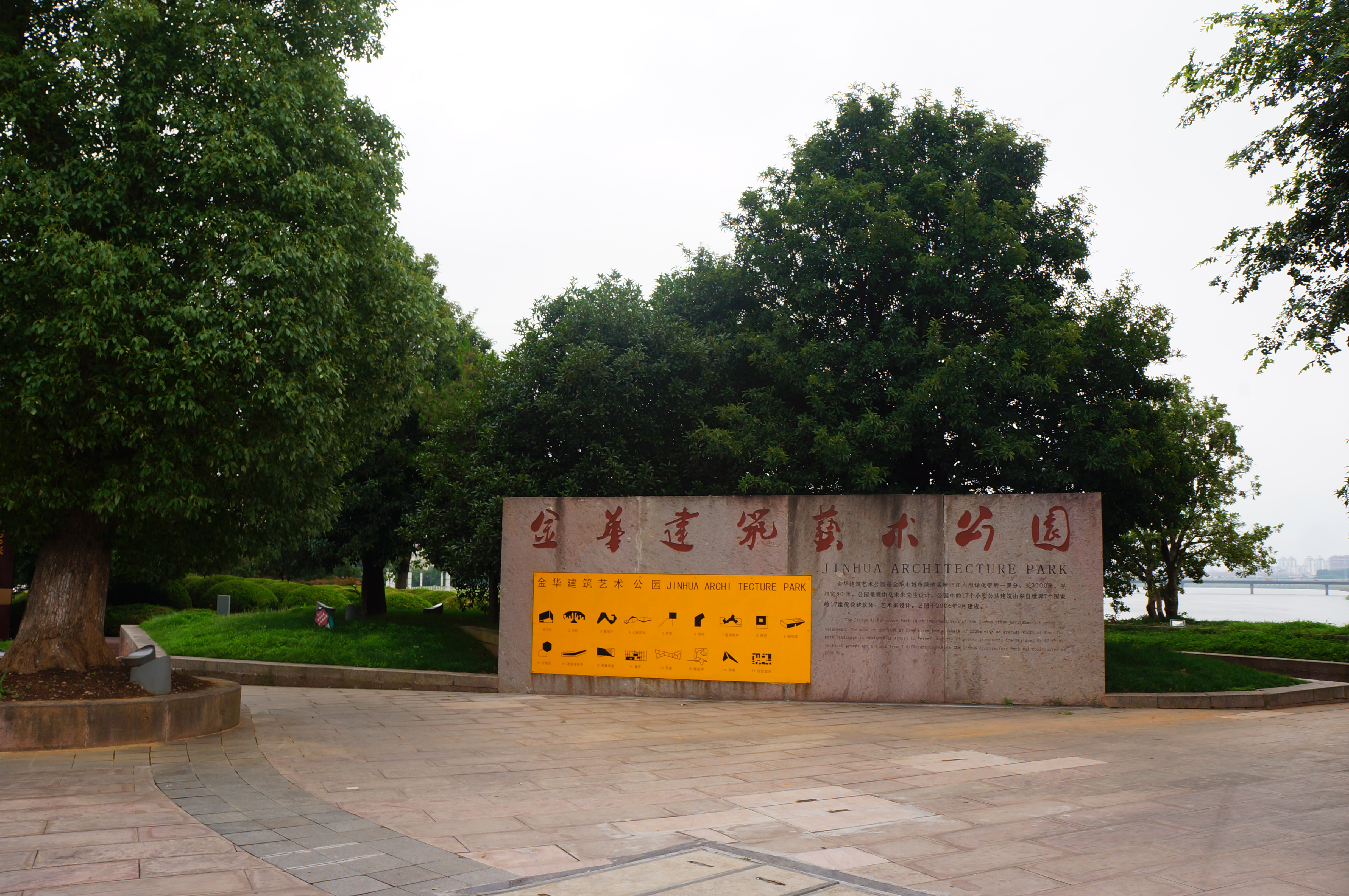 201805 Entrance of Jinhua Architecture Park